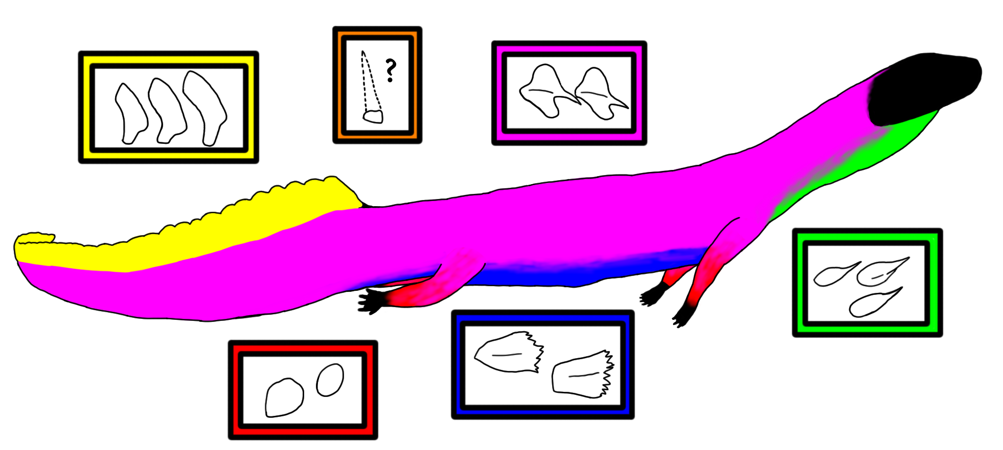 A diagram showing the distribution of different osteoderm types on the body of an individual Vancleavea campi, based on a complete and fully articulated specimen, GR 138. Bright green signifies "morphotype A" (throat) osteoderms. Bright magenta signifies "morphotype B" (dorsal and lateral) osteoderms. Dark blue is "morphotype C" (ventral) osteoderms. Yellow is "morphotype D" (tail fin) osteoderms. Red is "morphotype E" (appendicular) osteoderms. In addition, the "stegosaur spike"-like osteoderm associated with the holotype specimen is also depicted in an orange box, although its uncertain assignment to Vancleavea and lack of preservation in GR 138 means that it was not depicted on the main diagram. Silhouette adapted from by Smokeybjb. Changes include the posterior skull roof being flattened and the fifth toe being reduced in size.